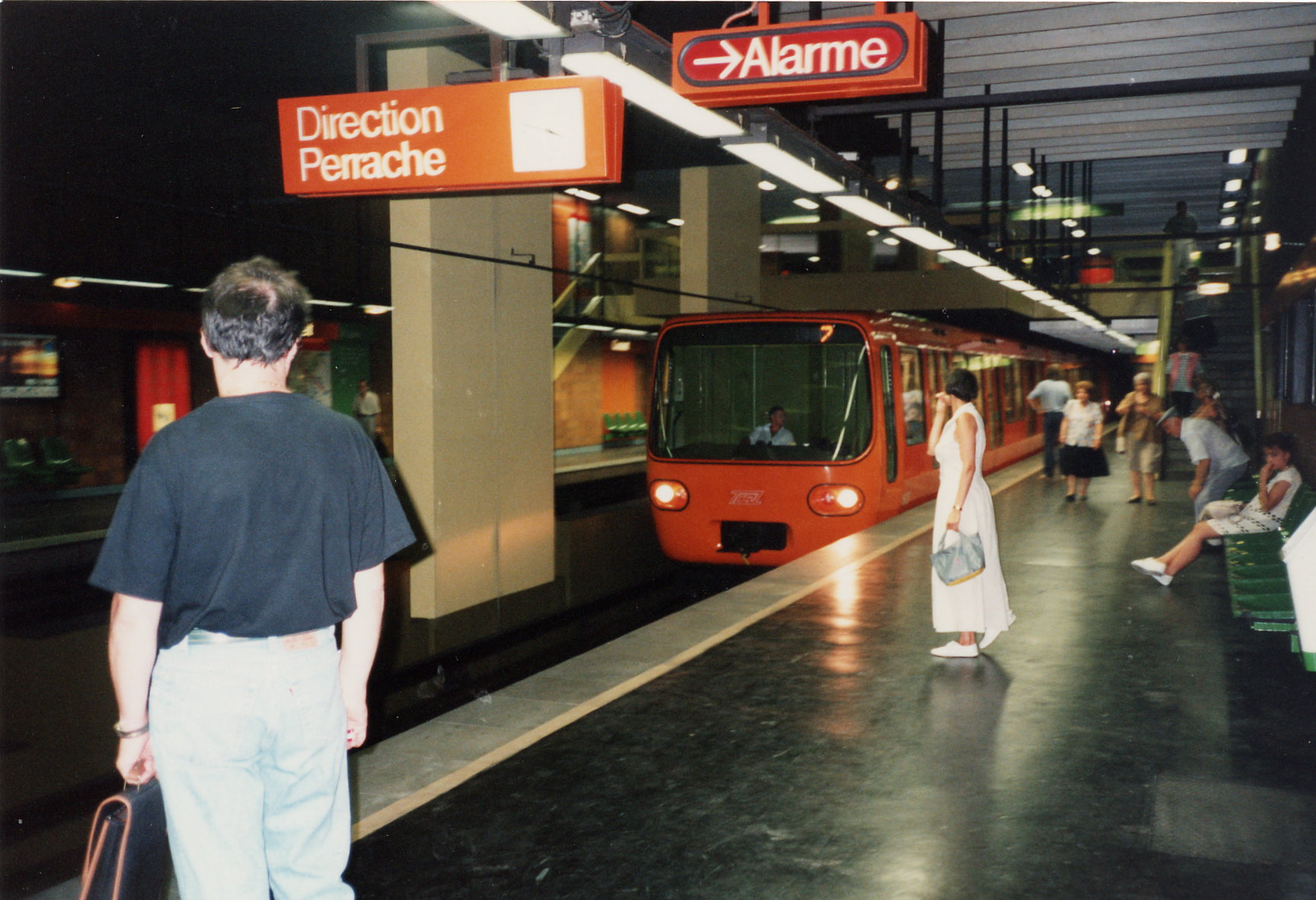 Cusset station on the Line A of the Lyon Metro. Photo has been taken in the (early) 1990s after opening of the D line.